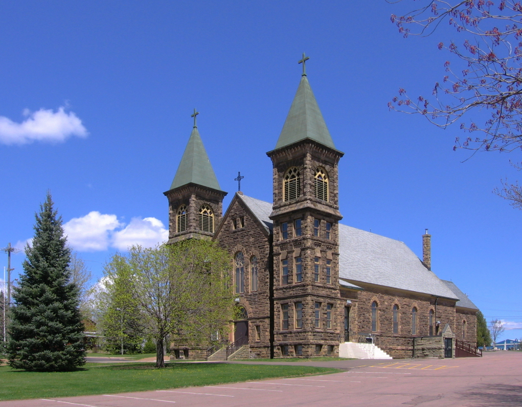 St. Anselm Church in Dieppe, New Brunswick.